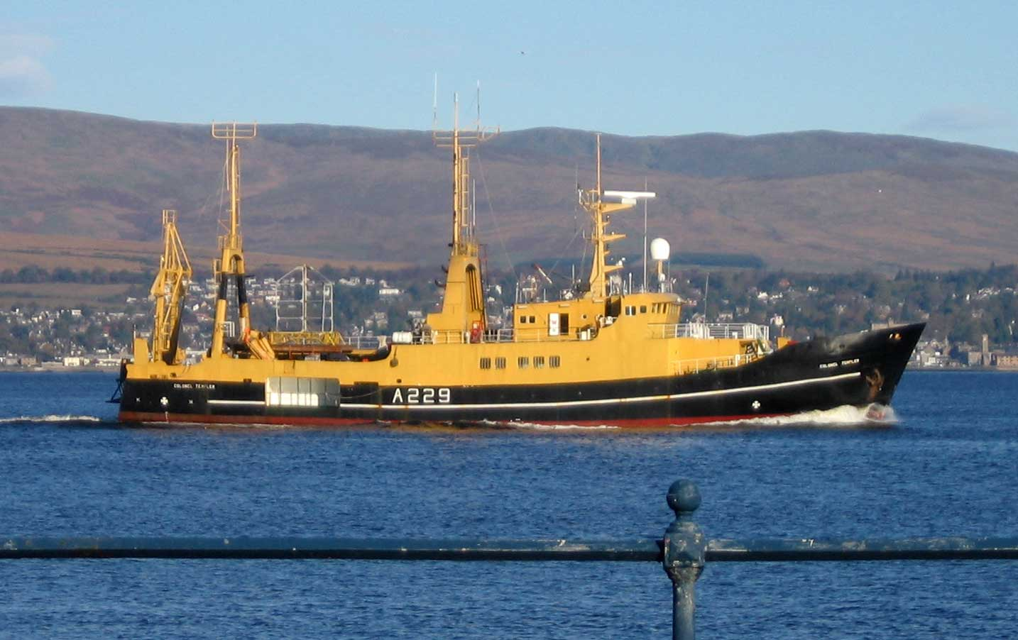 RMAS Colonel Templer (A229) on the Firth of Clyde in Scotland, seen from Greenock Esplanade. IMO Number: 6619944 MMSI Number: 233129000 Callsign: GTTA Length: 56.55 m Beam: 10.97 m